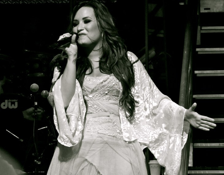 Demi Lovato in December 2011.